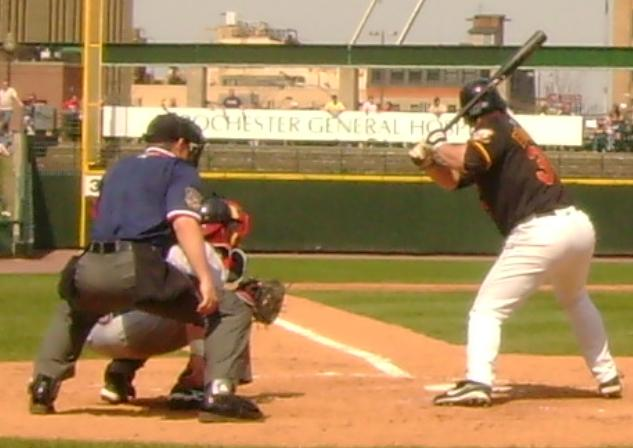 Brian Buscher bats for the Rochester Red Wings versus the Richmond Braves 4/24/08. 03:26, 3 May 2008 . . Phil5329 . . 633×448 (36 KB)